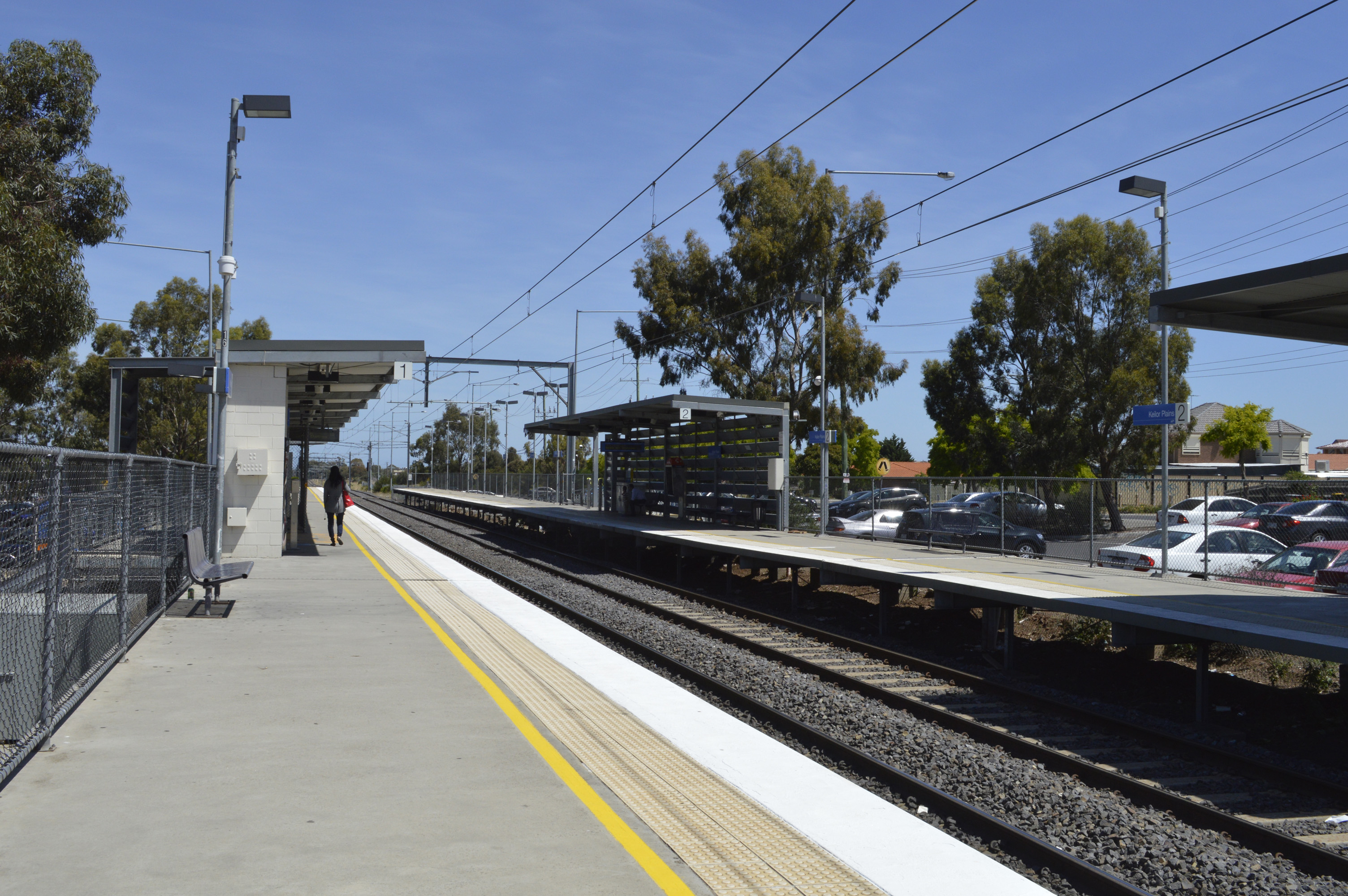 Looking towards Melbourne